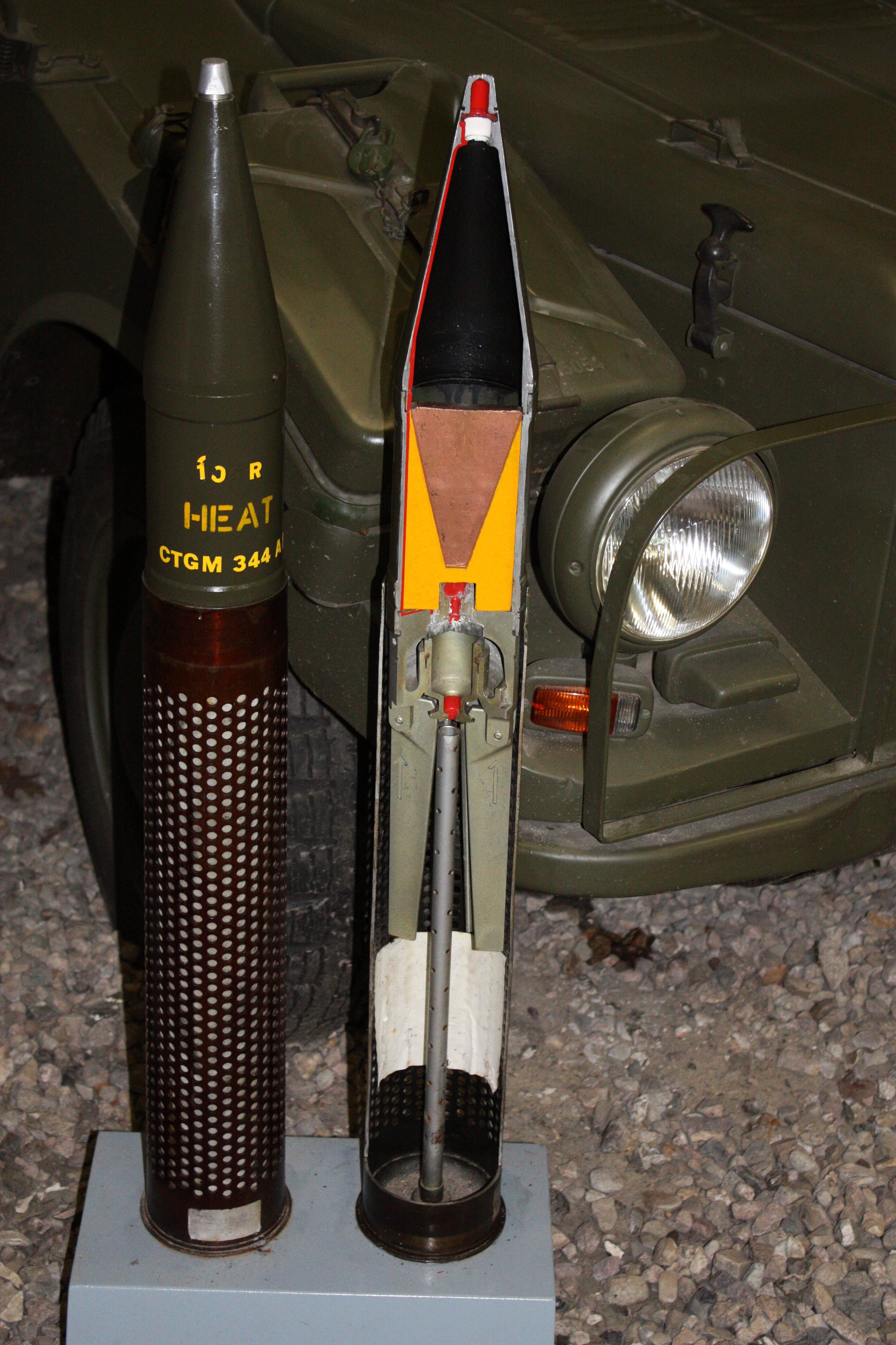 German Tank Museum